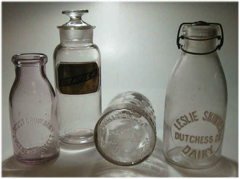 Examples of Milk bottles made in the Late 19th and early 20th Century. They were made at the Warren Glass Works Company. The milk bottles are embossed on the base with the Whiteman name and either one of two New York city addresses. The apothecary bottle is embossed on the base with the Warren Glass Company and Cumberland (cumberlandglass, released to public domain)